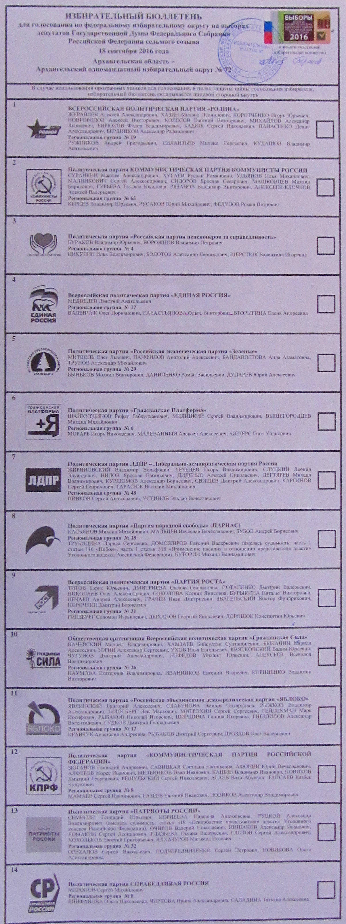 Elections of Russian Gosduma 2016 (Russian legislative election, 2016); photo of the Bulleten - the federal list